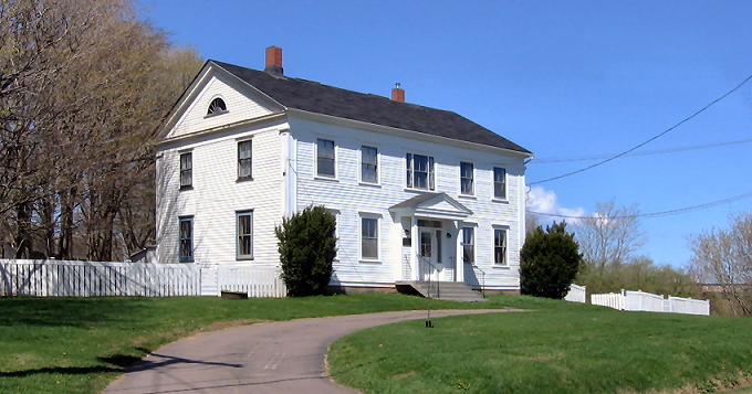 Self made photo. Retouched and cropped.